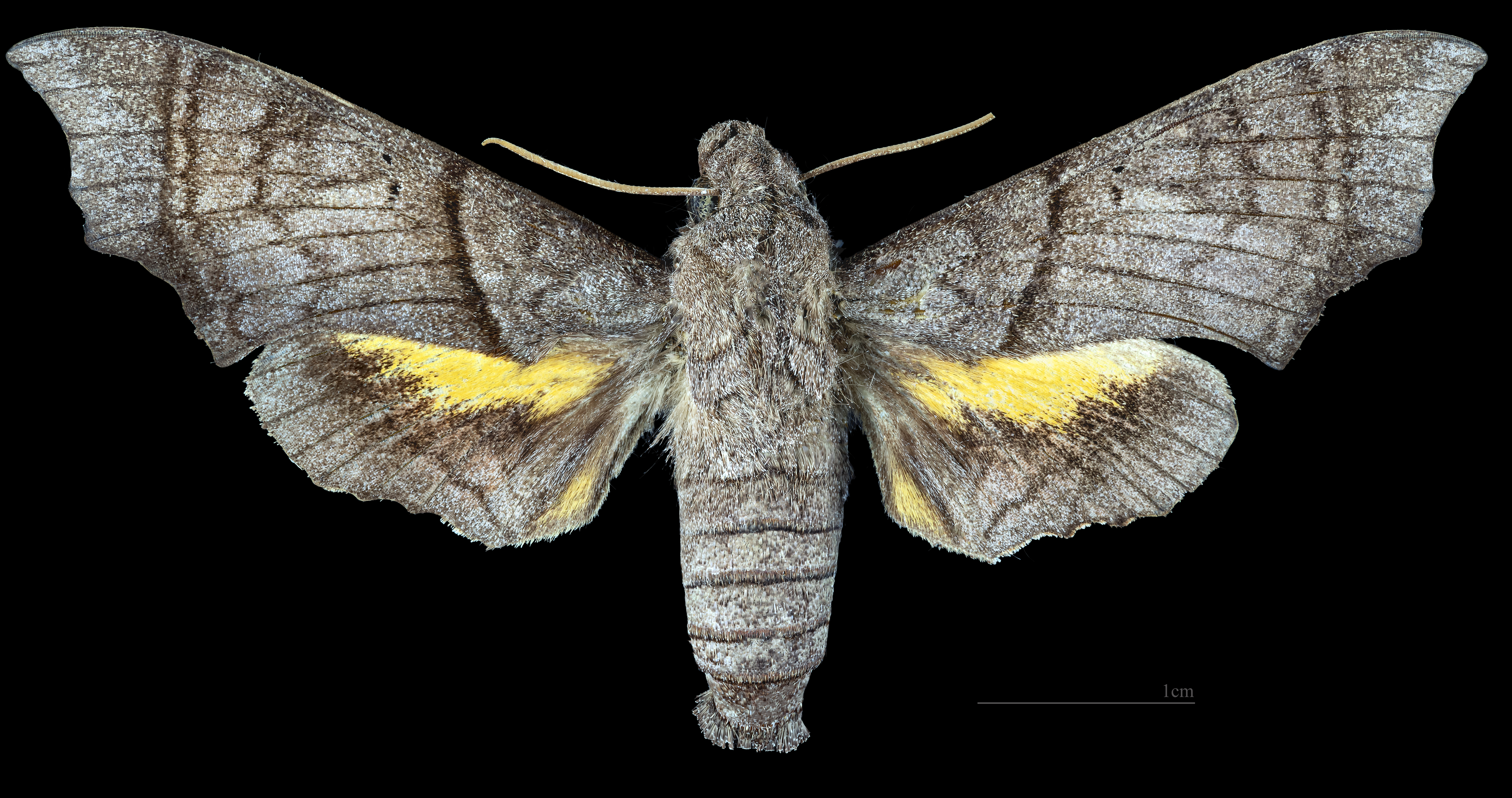 Perigonia grisea - Dorsal side Collection of the Mathematician Laurent Schwartz